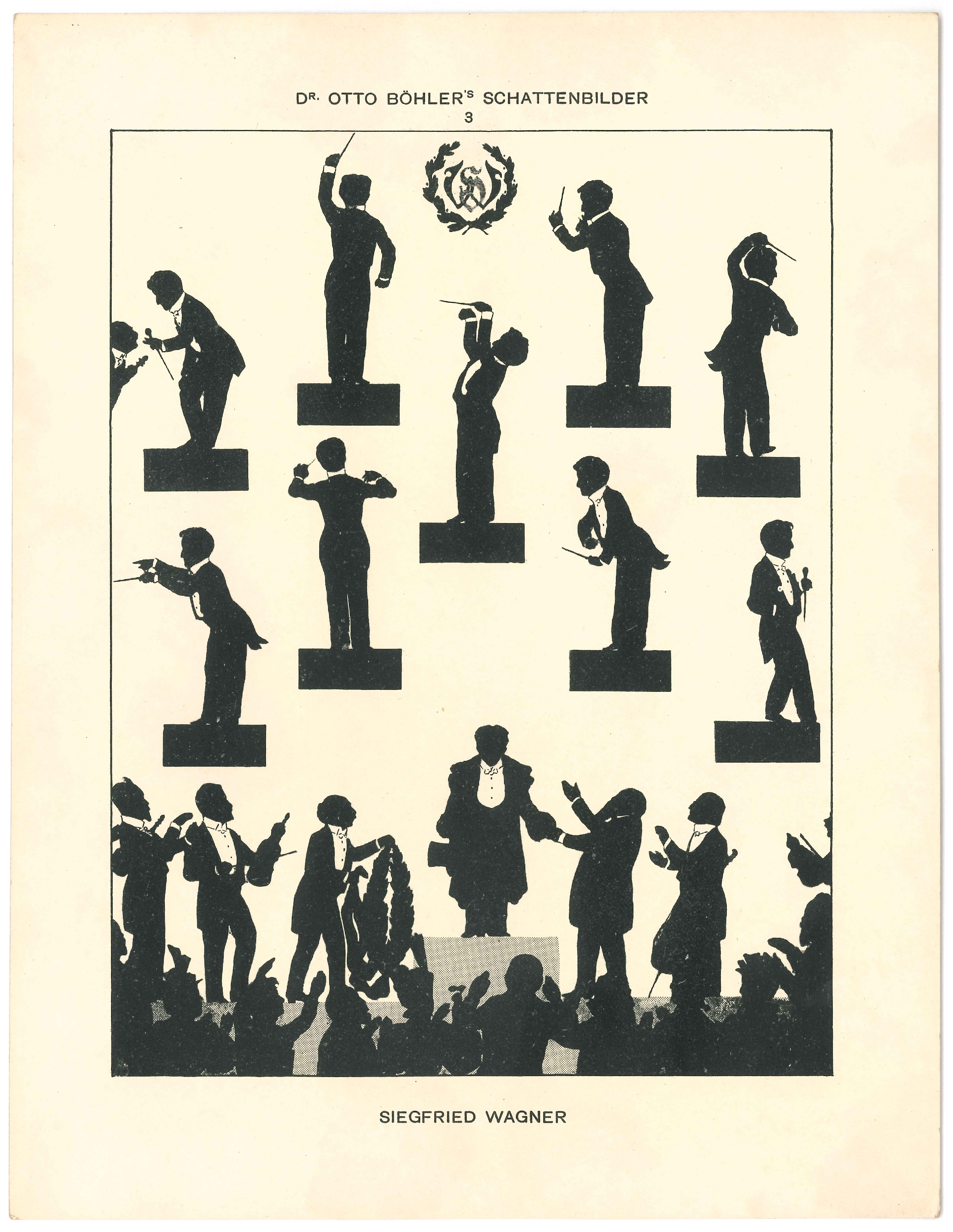 Siegfried Wagner, silhouette 20 x 26 cm; photo of Böhler´s silhouette printed on thick card